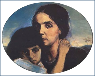 Milena Pavlović-Barili: Milena with mother, 1926, oil oncardboard, 47x50,5 cm Signature on the back (Cyrillic): A copy of the photo from 1914. Mom with me, Milena (owner: Milena Pavlović-Barili Galery, Požarevac, Serbia)